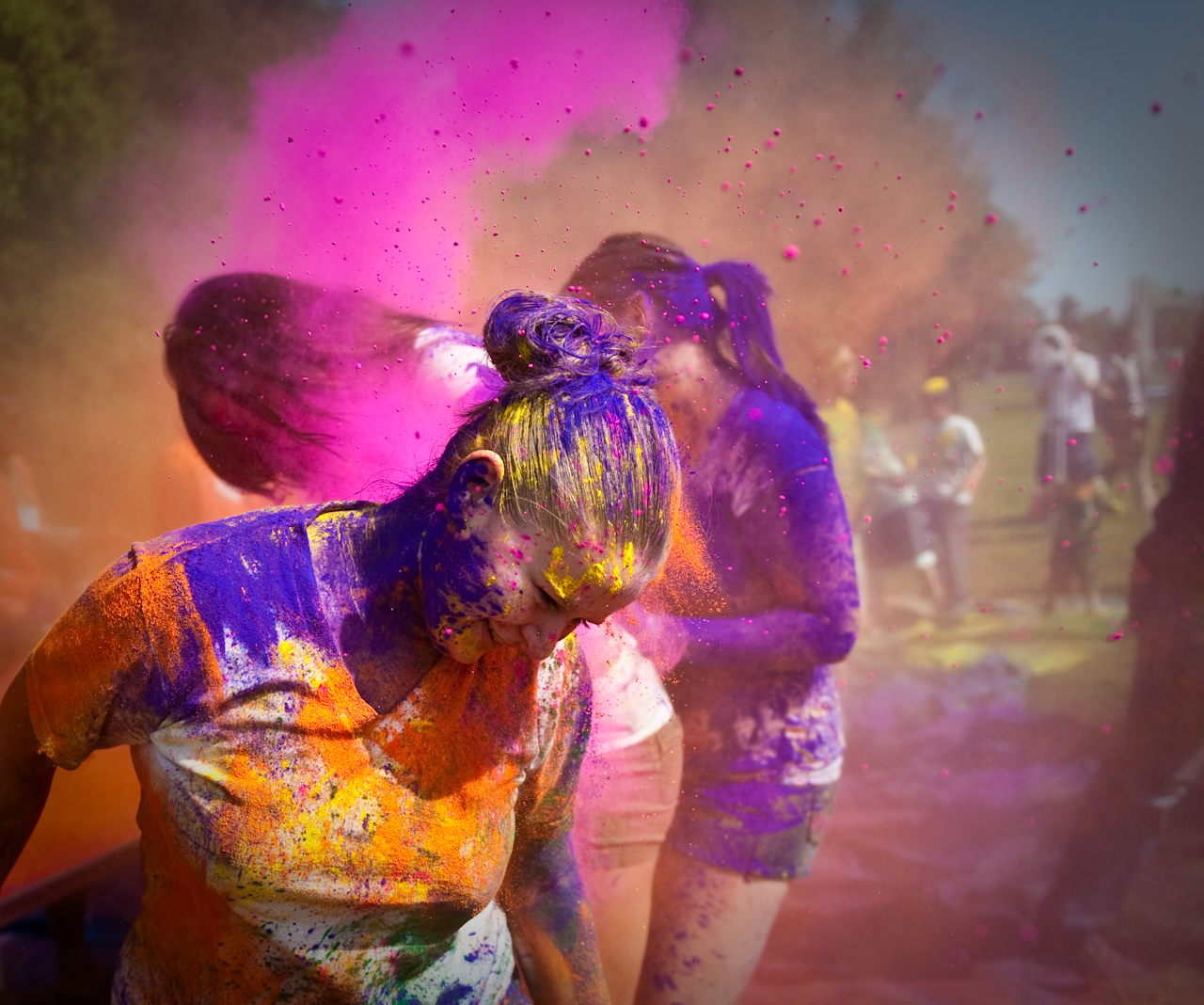 Standford Holi celebration with strong pink colors.